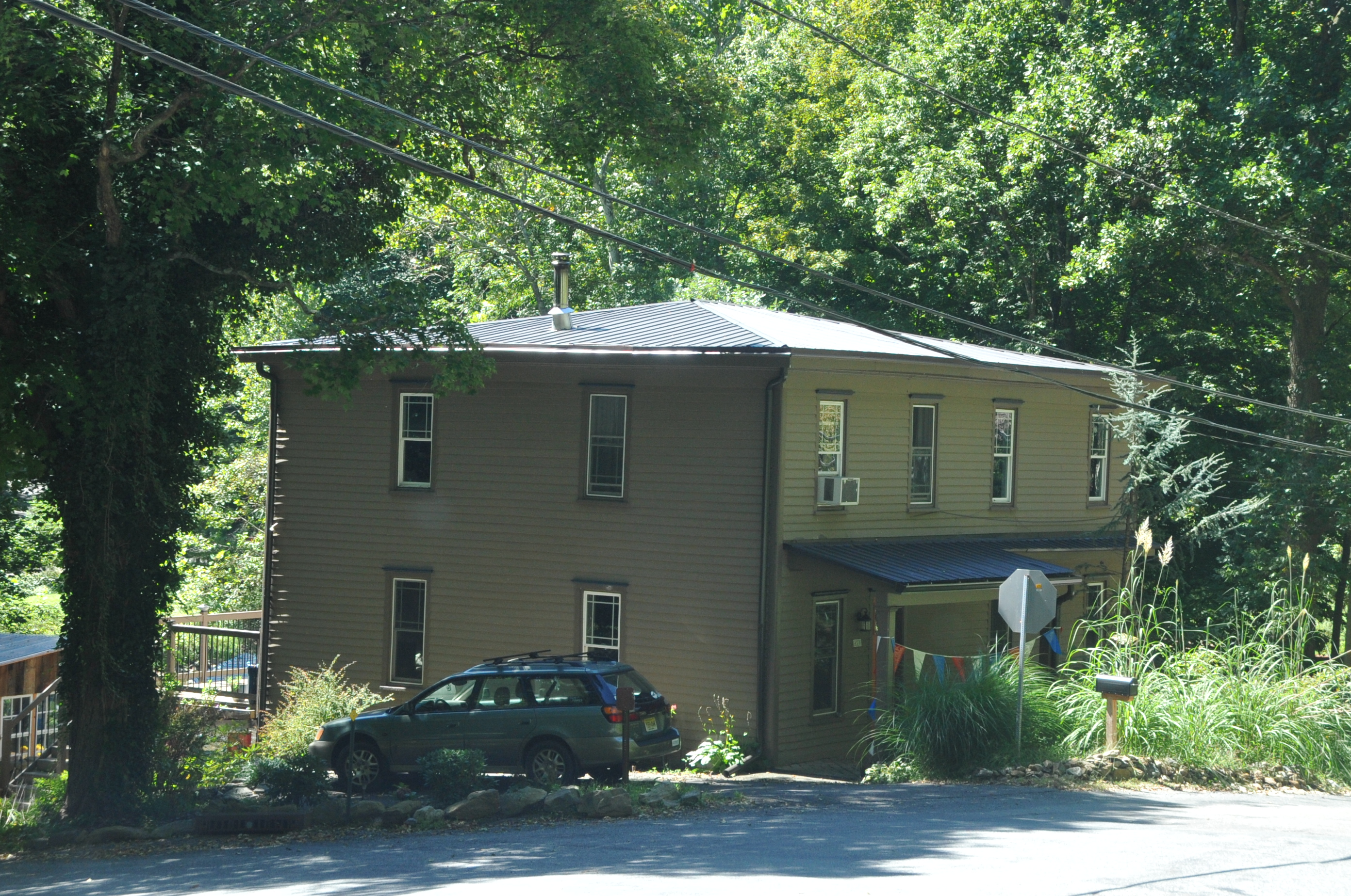 LOCATED ALONG THE SOUTH BRANCH OF THE RARITAN RIVER; SITE OF EARLY MILLS AND OF 6 DWELLINGS IN THE VILLAGE